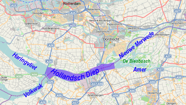 Hollands Diep,Netherlands location map